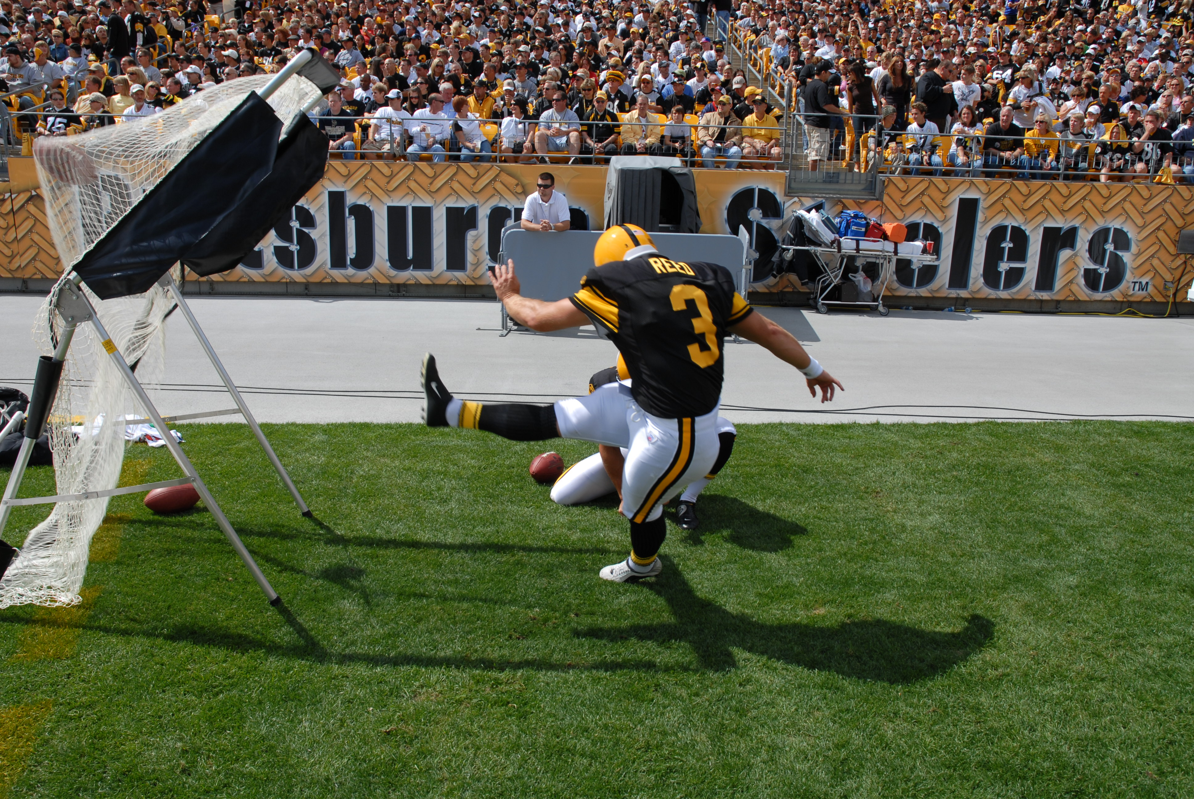 Pittsburgh Steelers kicker Jeff Reed warms up during the Steelers 2007 home opener. The Steelers are wearing their 75th year "Throwback" uniforms.